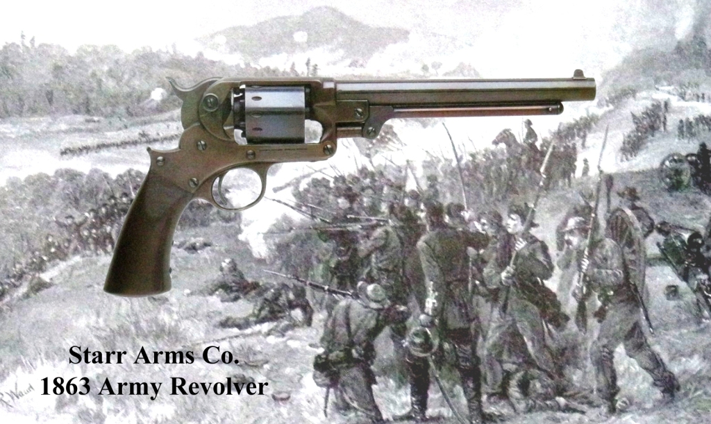 Starr 1863 Army Revolver